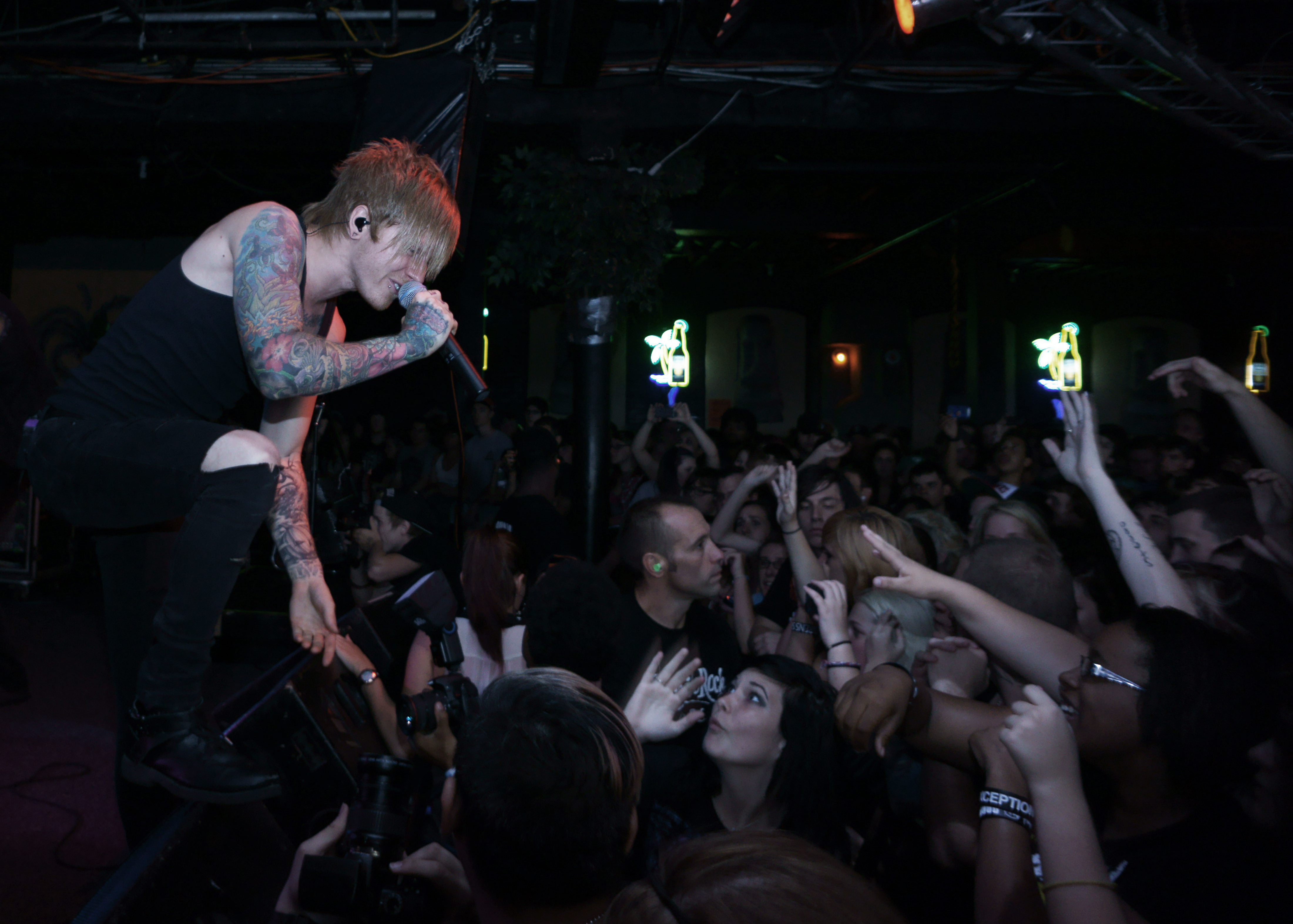 Post-hardcore band A Skylit Drive live in 2012